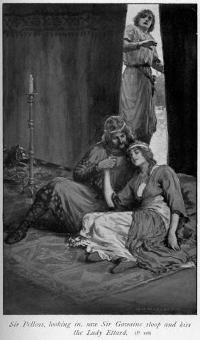 William Henry Margetson's illustration for Legends of King Arthur and His Knights (1914)